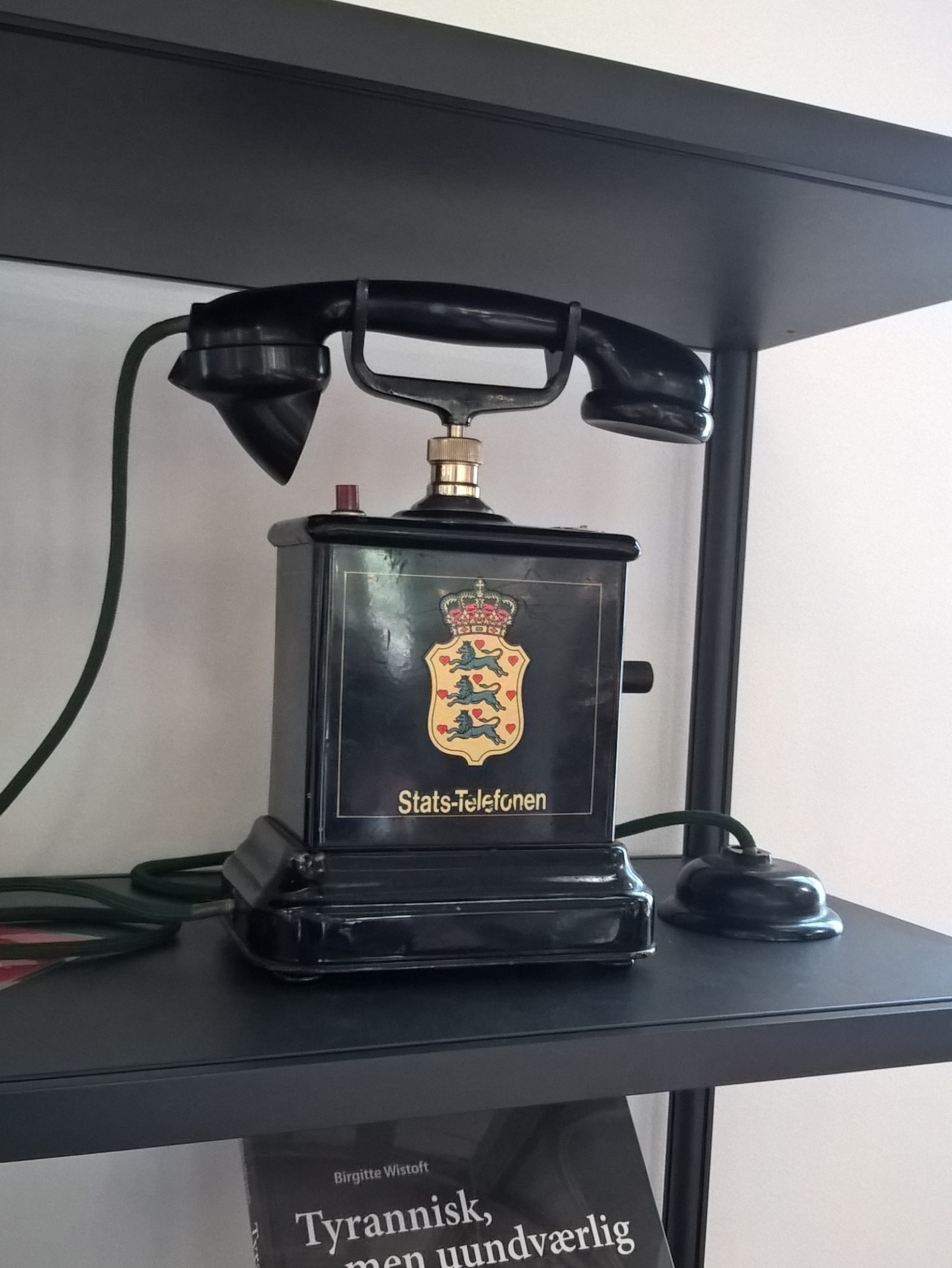 Old telephone of Statstelefonen displayed at the postal and communication museum Enigma in Østerbro in Copenhagen.